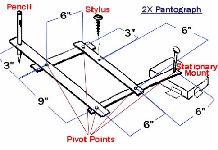 Pantograph 2X drafting mechanism